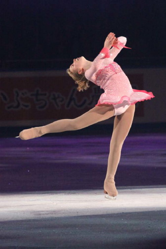 Rachael Flatt performs a layback spin during her exhibition at the 2009 World Team Trophy.